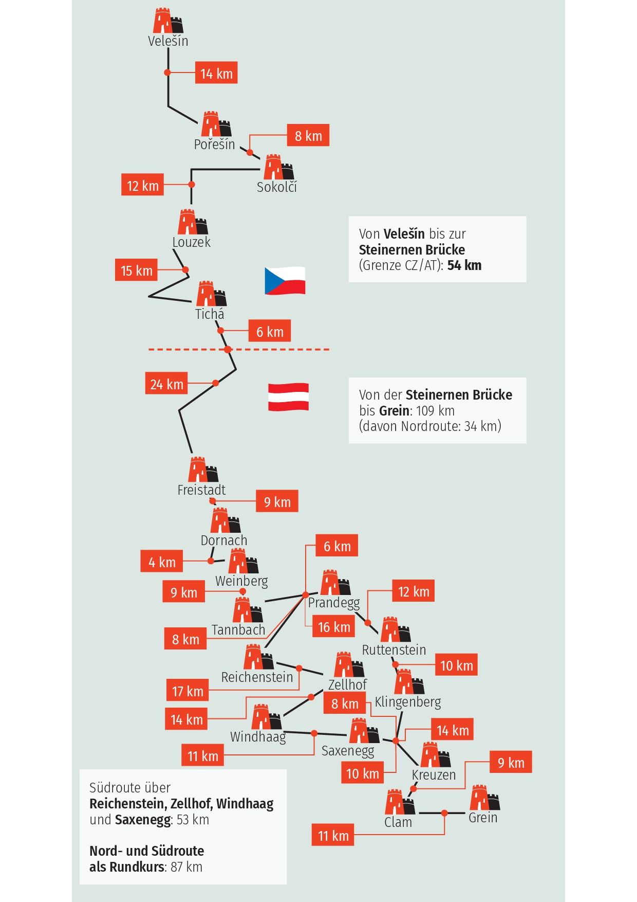 Route overview castle trail